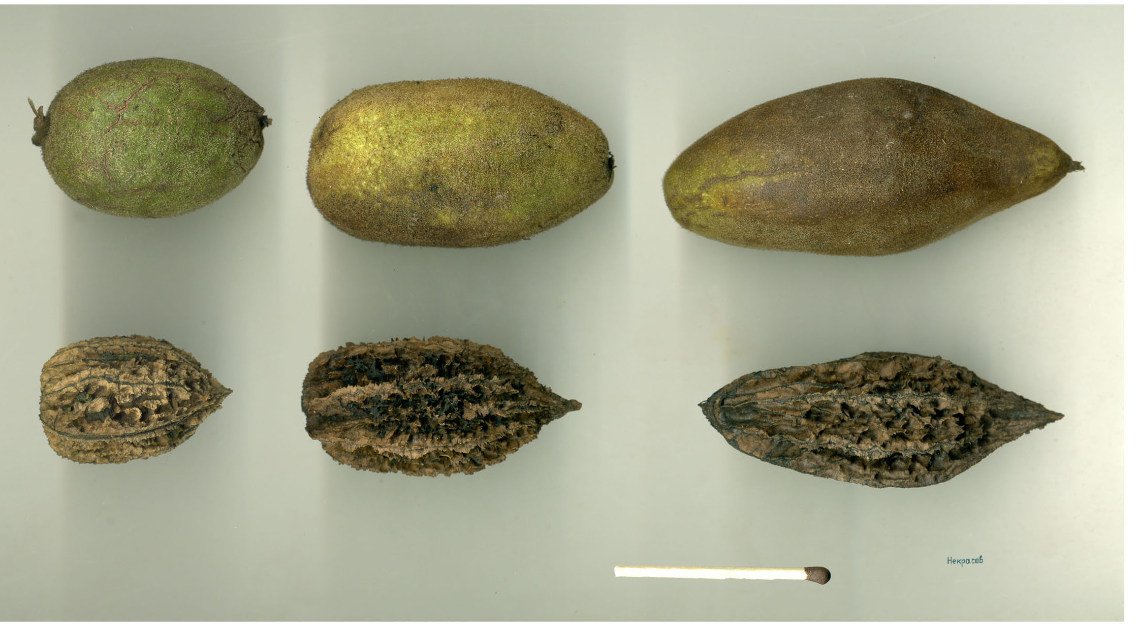 Juglans cinerea. Moskow. Орех серый, подвиды. Орехи из Ботанического сада ВИЛАР, Москва.